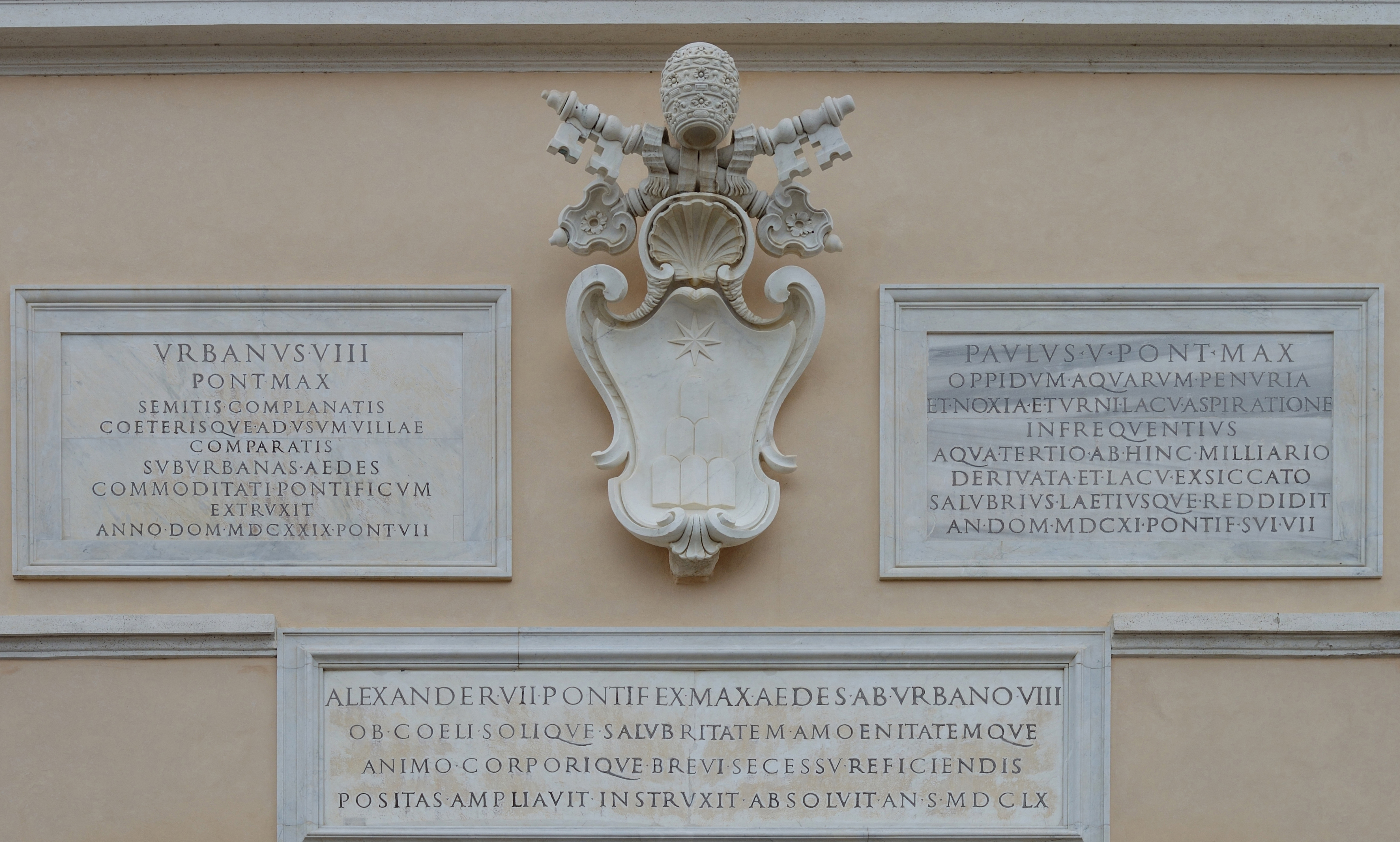 Plates on Pontifical Palace (Castel Gandolfo)